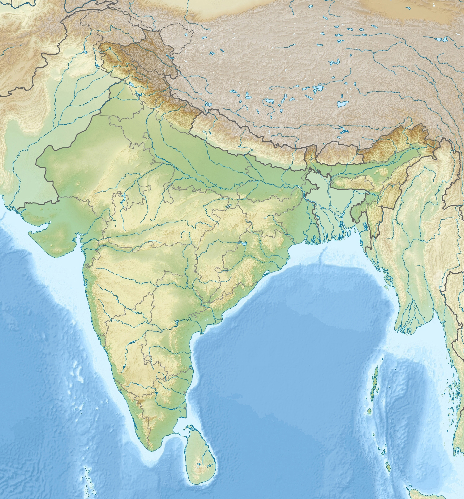 Location map of India. Equirectangular projection. Stretched by 106.0%. Geographic limits of the map: N: 37.5° N S: 5.0° N W: 67.0° E E: 99.0° E Made with Natural Earth. Free vector and raster map data @ .